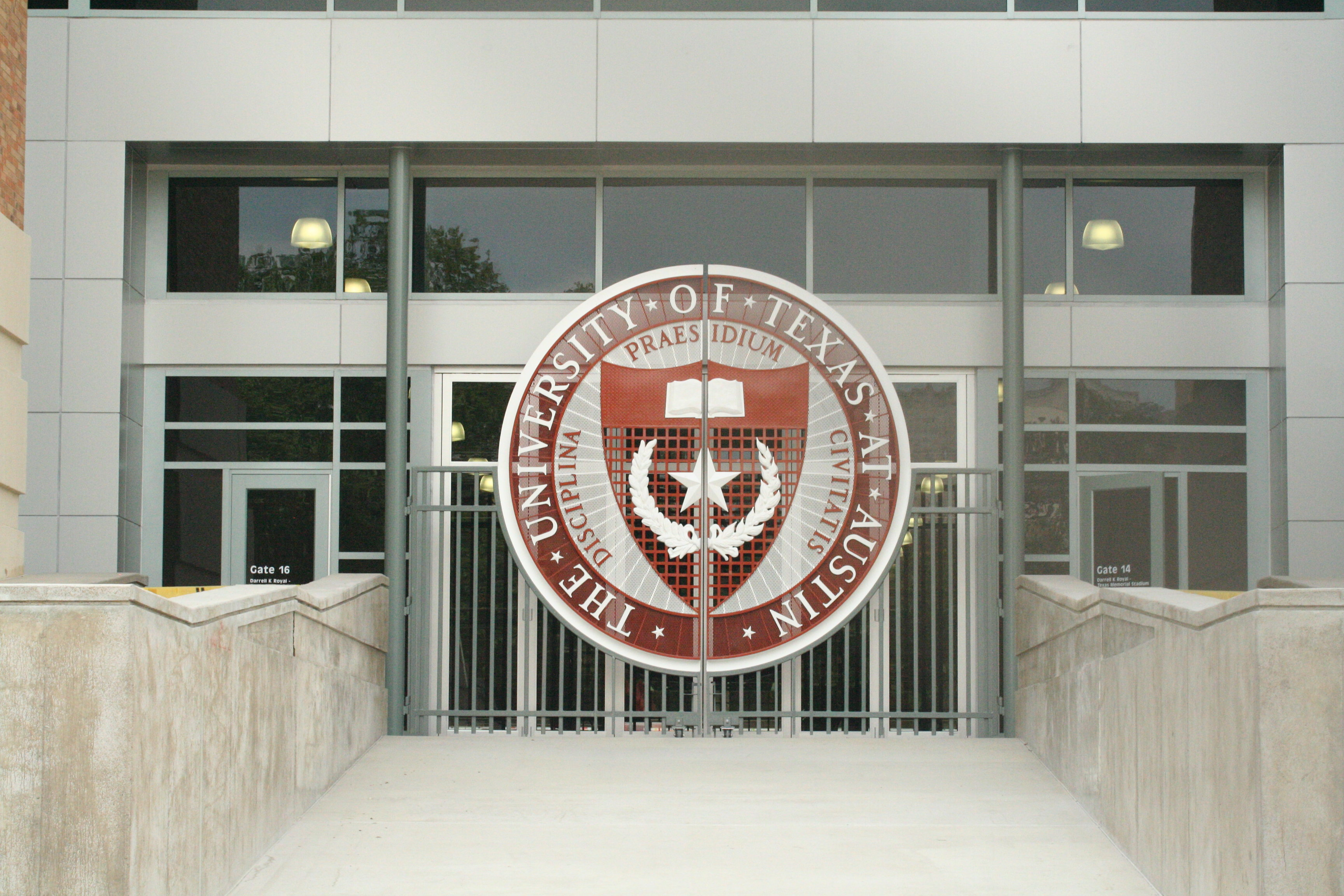 The new North entrance to the Darrell K. Royal Texas Memorial Stadium on the campus of University of Texas at Austin, Texas, USA.